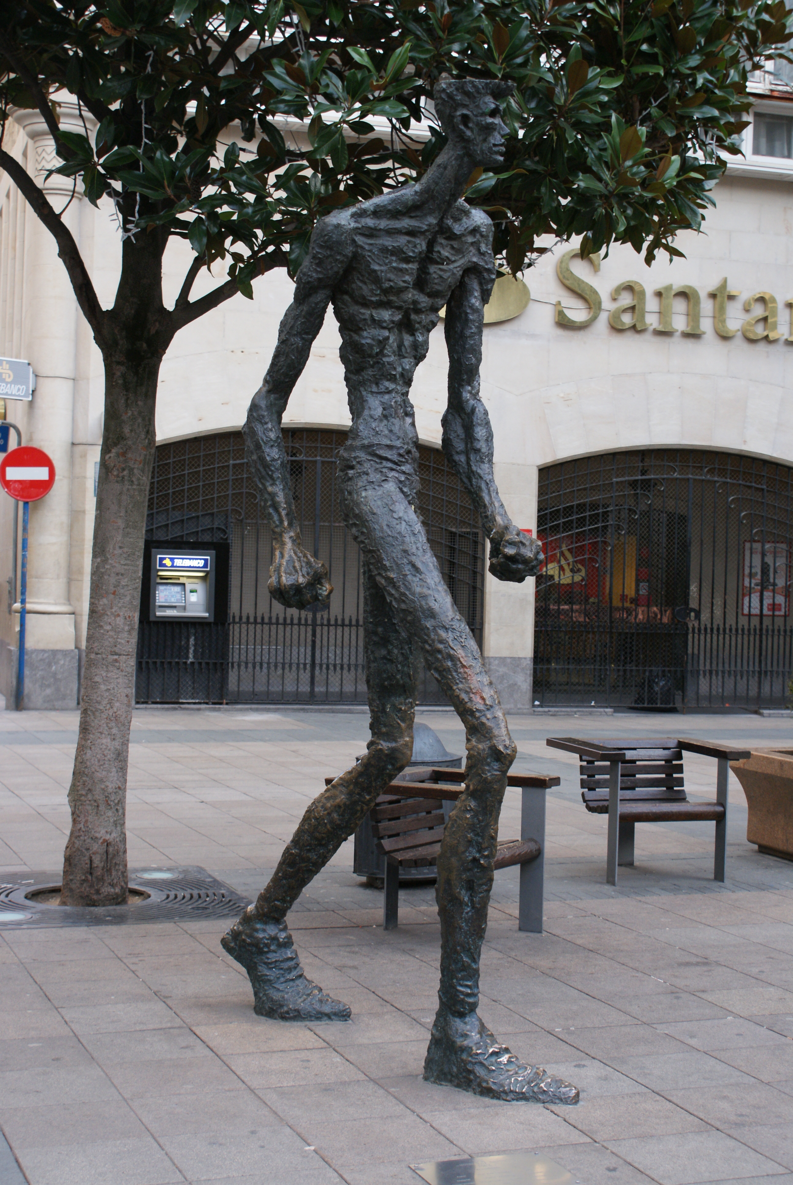 "The Walker", one of Vitoria-Gasteiz's most well-known symbols